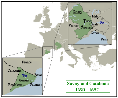 This image is selfmade